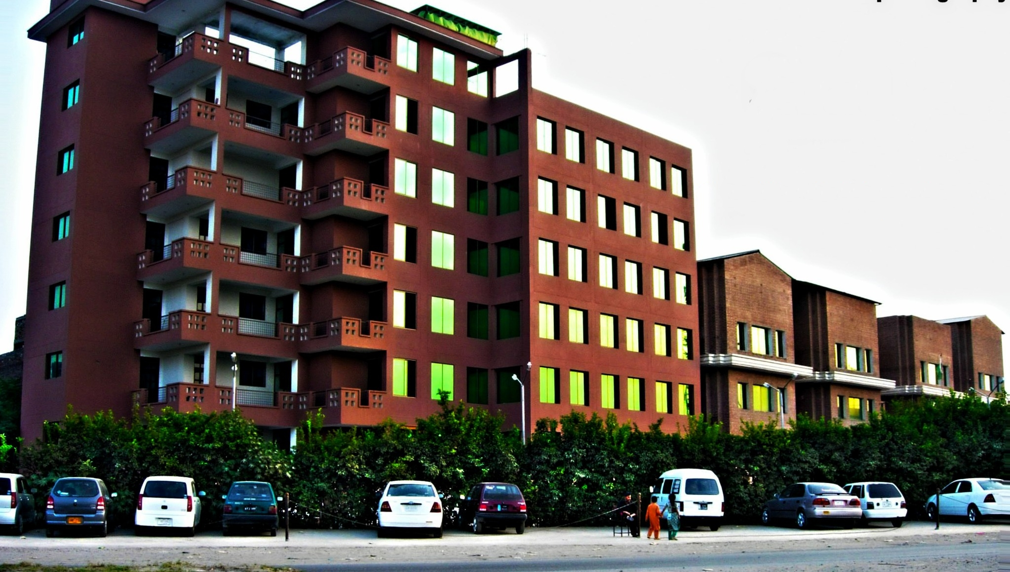 Abasyn University Main Campus Peshawar image